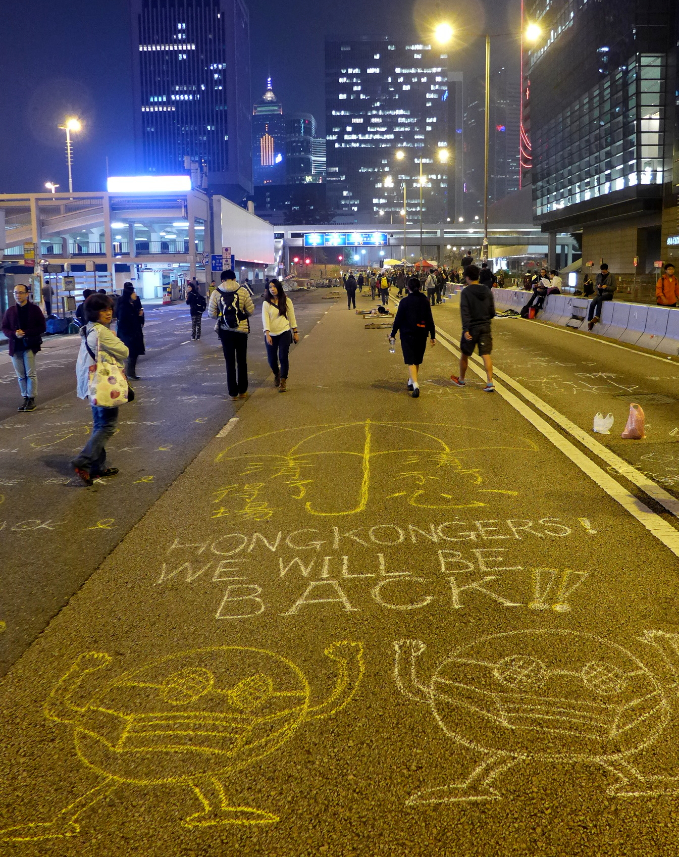 Connaught Road Central Message